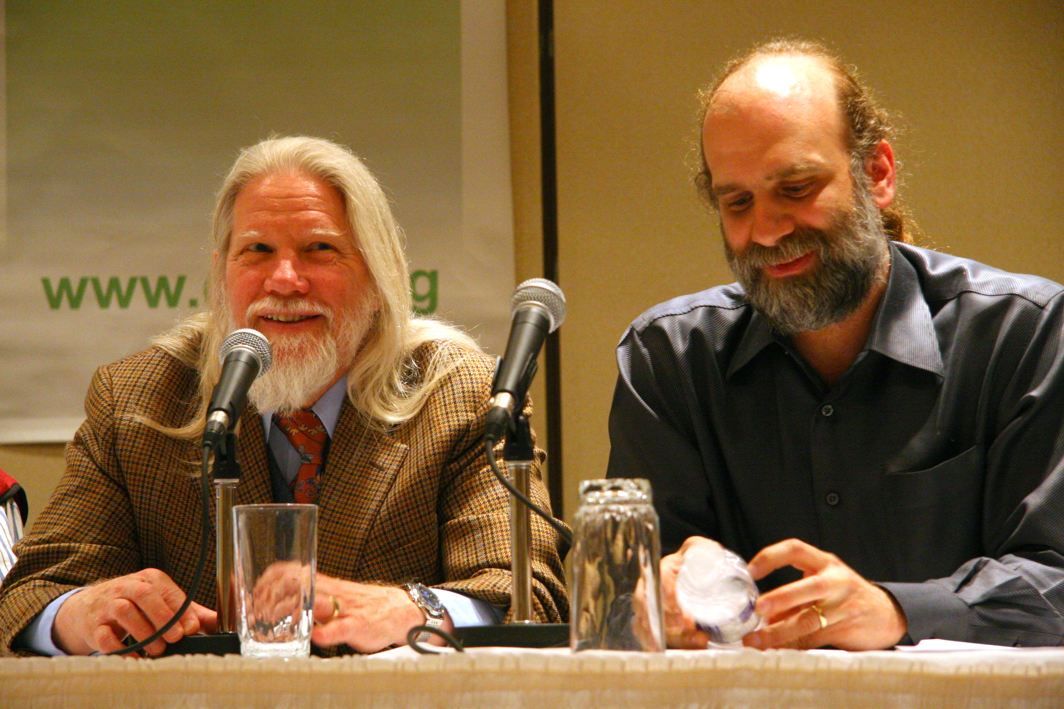 Whit Diffie and Bruce Schneier at the 2007 Computers, Freedom, and Privacy conference